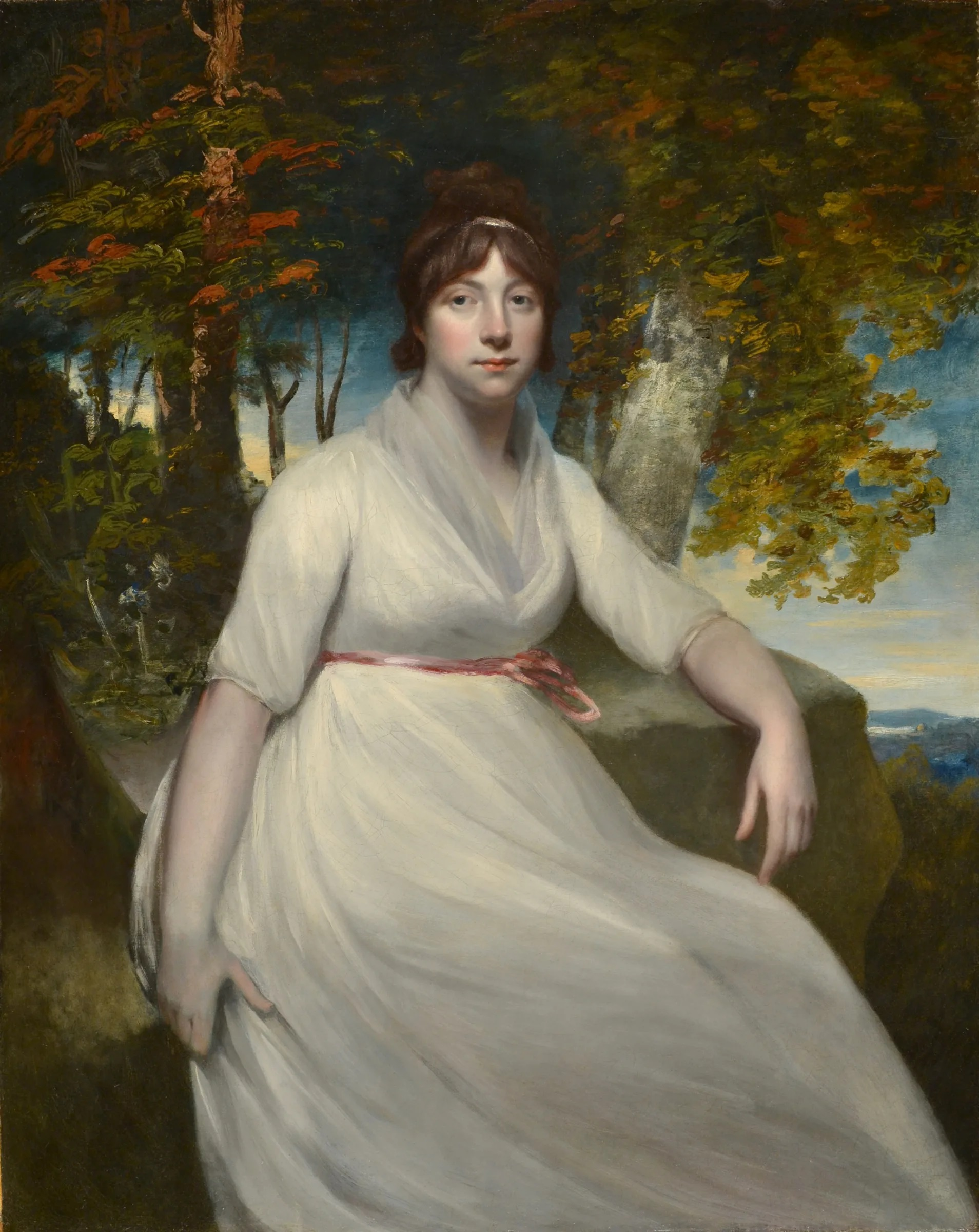 John Hoppner R.A 1758-1810 Portrait of Lady Elizabeth Whitbread (1765-1846) Label verso Oil on canvas 50 x 40 inches Framed size 58 ½ x 48 ½ inches